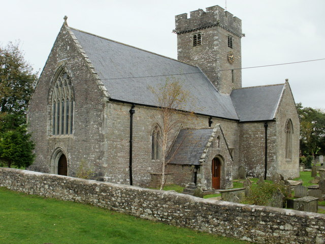 Parish church of St Mary the Virgin, Coity, Bridgend, South Wales. A Church in Wales church in the parish of Coity, Nolton & Brackla, Diocese of Llandaff.